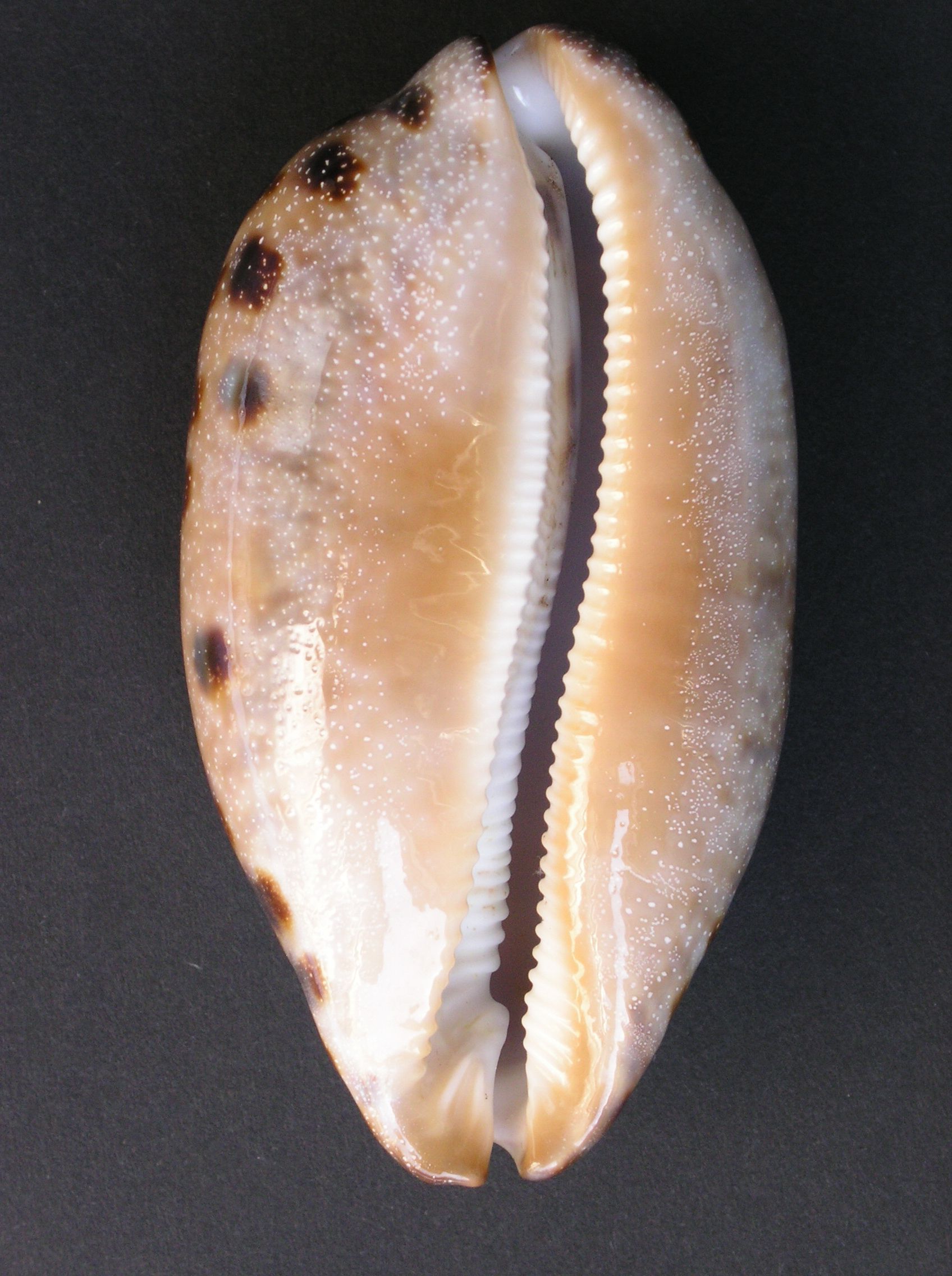 Chelycypraea testudinaria (synonym : Cypraea testudinaria - ventral view) Licence: self-made photo, May 2005